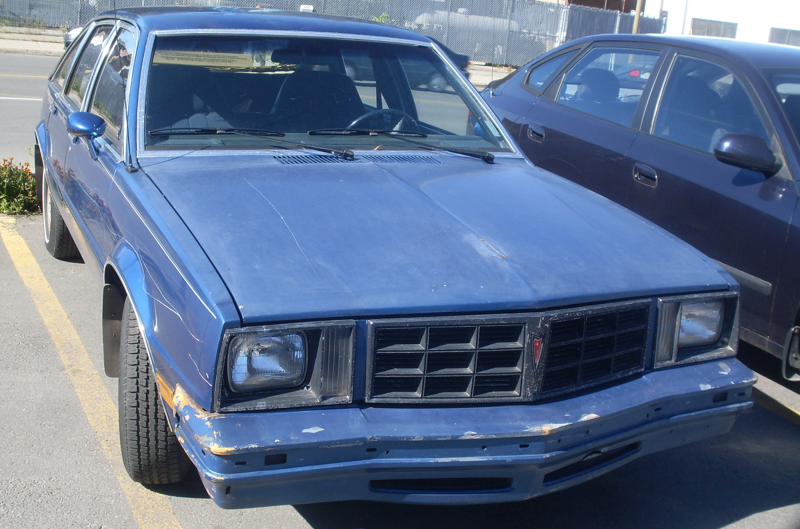 1980 Pontiac Phoenix photographed in Montreal, Quebec, Canada.